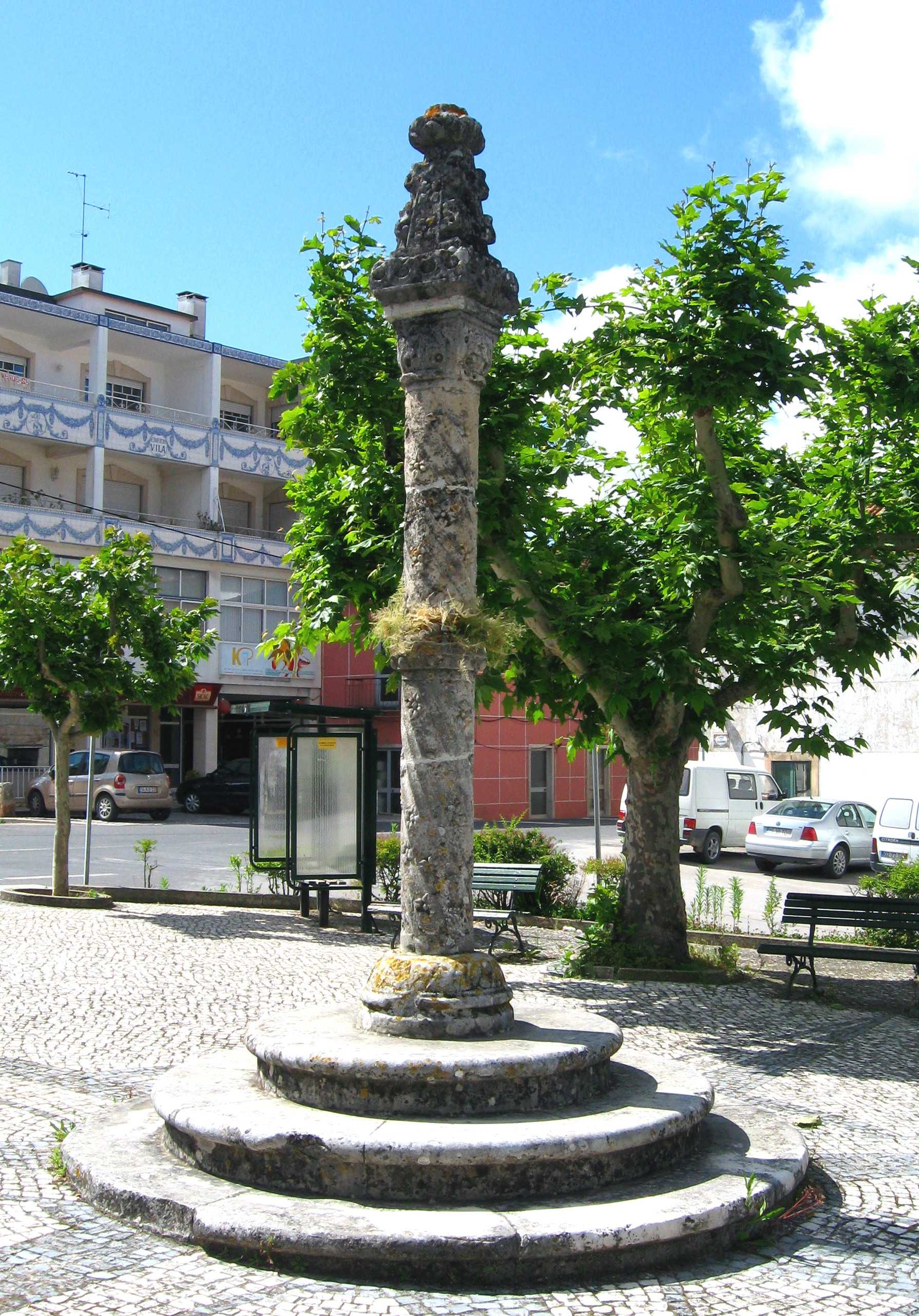 Alcobaça, Portugal. Mosteiro de Alcobaça, Coutos (territory of the Abbey), Turquel, pillory (Pelourinho) of 1512/1515